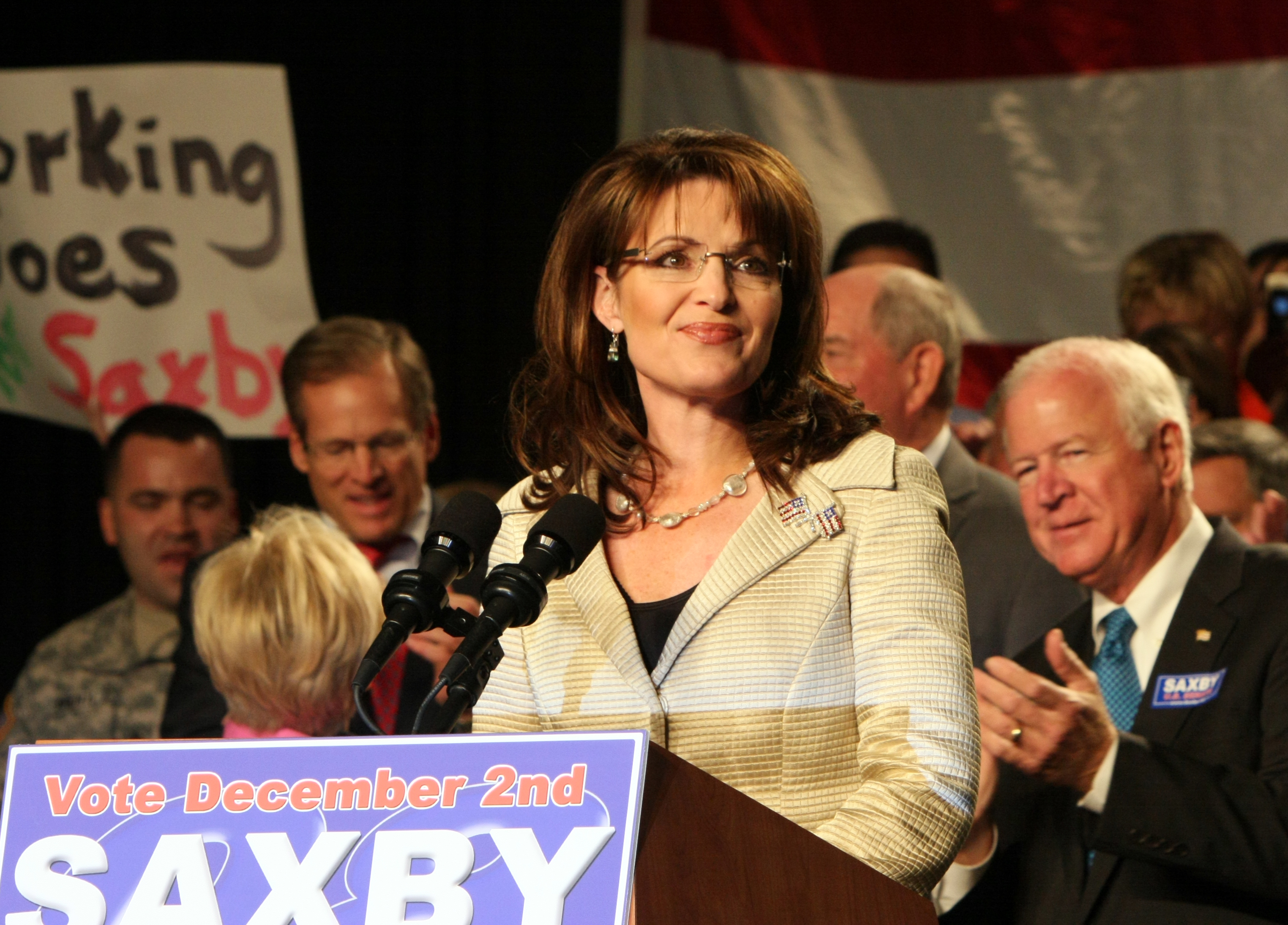 Sarah Palin (front and center) speaking at rally in Georgia for US Senator Saxby Chambliss (right). Immediately left of Palin and looking down is Representative Jack Kingston.